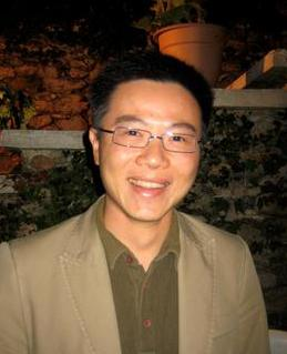 Ngô Bảo Châu is a Vietnamese mathematician. He received the Fields Medal in 2010.